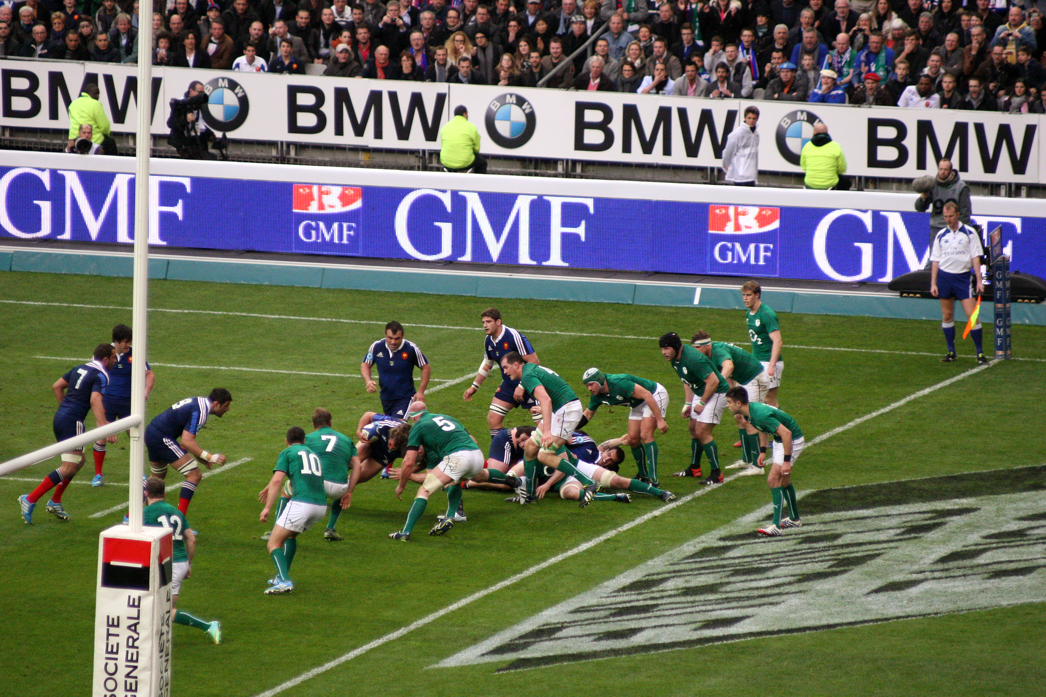 2014 Six Nations Championship, France vs Ireland.Ball player is Dimitri Szarzewski